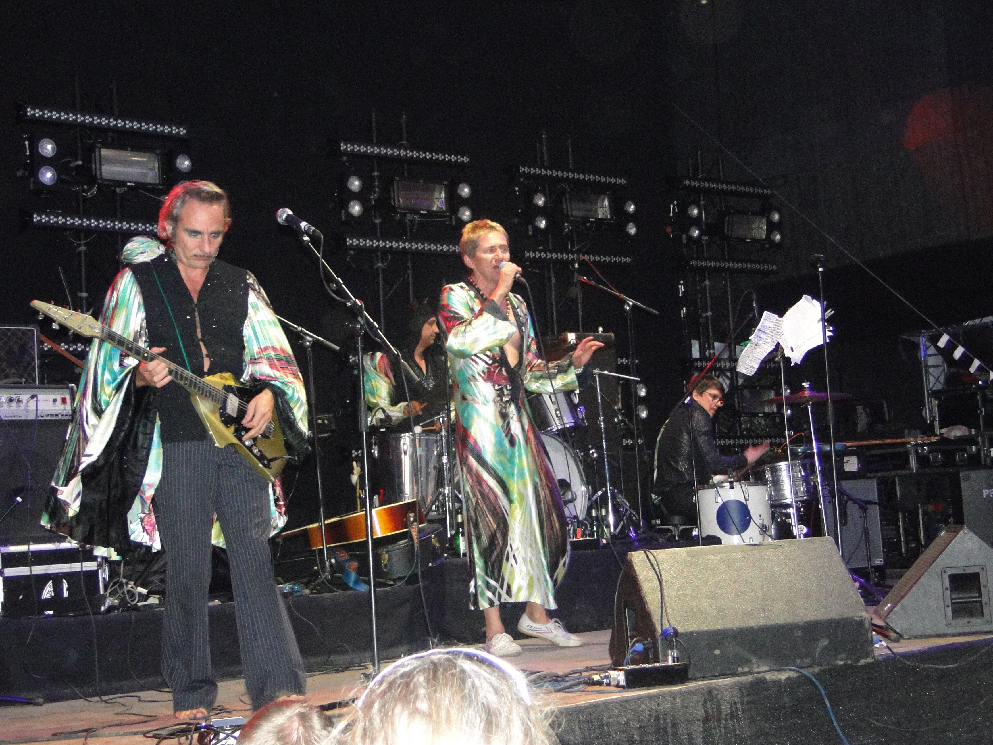 Die Goldenen Zitronen live at Dockville festival, Germany, 2011